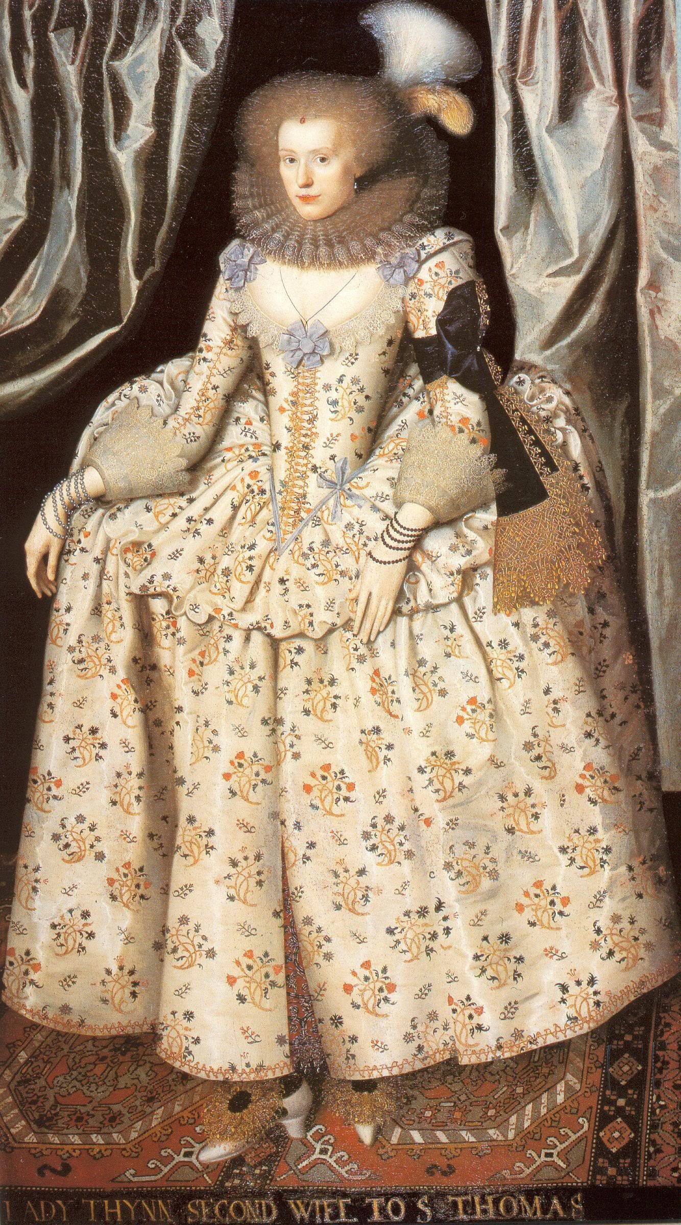 Portrait of Catherine Howard, second wife of Sir Thomas Thynne.